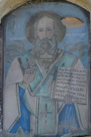 Saint Nicholas Church in Dragovishtitsa Patron Fresco 1884